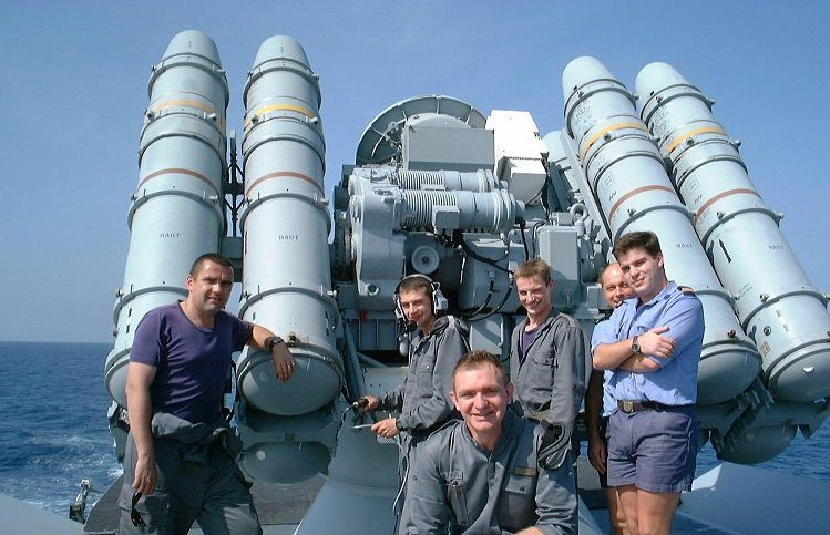 (no responsibility is taken for the correctness of this translation): 6th of December 1999: gunnery crew of the Motte-Picquet frigate, in front of the Crotale anti-air missile launcher.